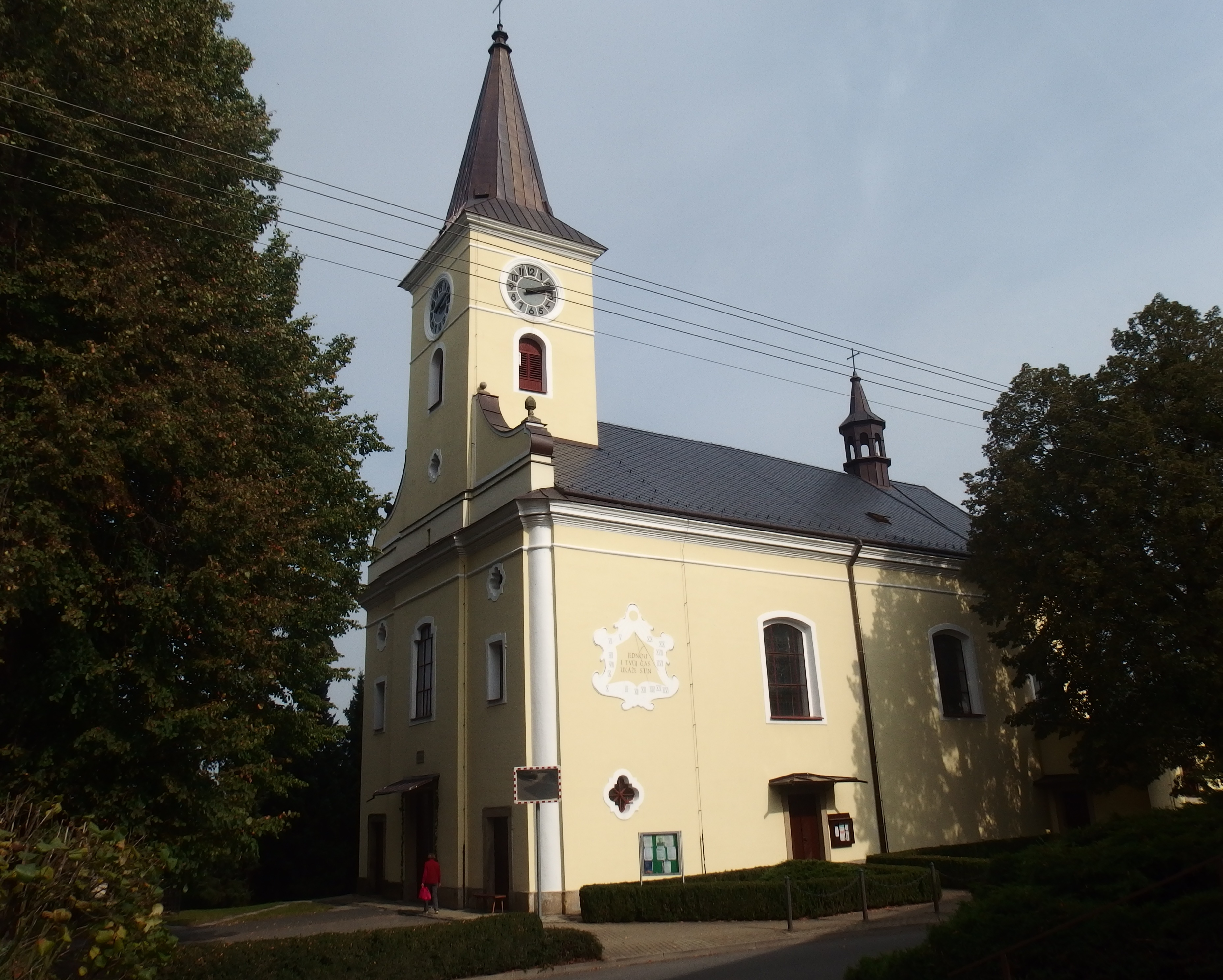 Mysločovice, Zlín District, Czech Republic.